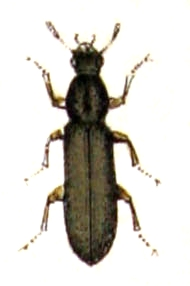 Boros schneideri, from Calwer's Käferbuch, Table 47, Picture 7. Taxonomy was updated to 2008, using mostly the sites Fauna Europaea and BioLib. Please contact Sarefo if the determination is wrong!